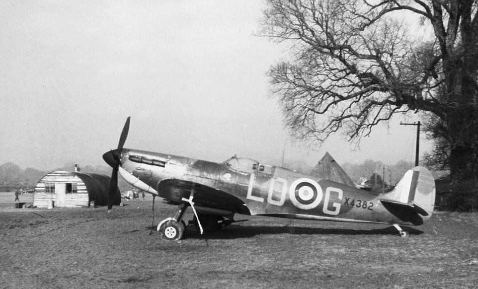 Supermarine Spitfire Mk Ia, 602 Squadron